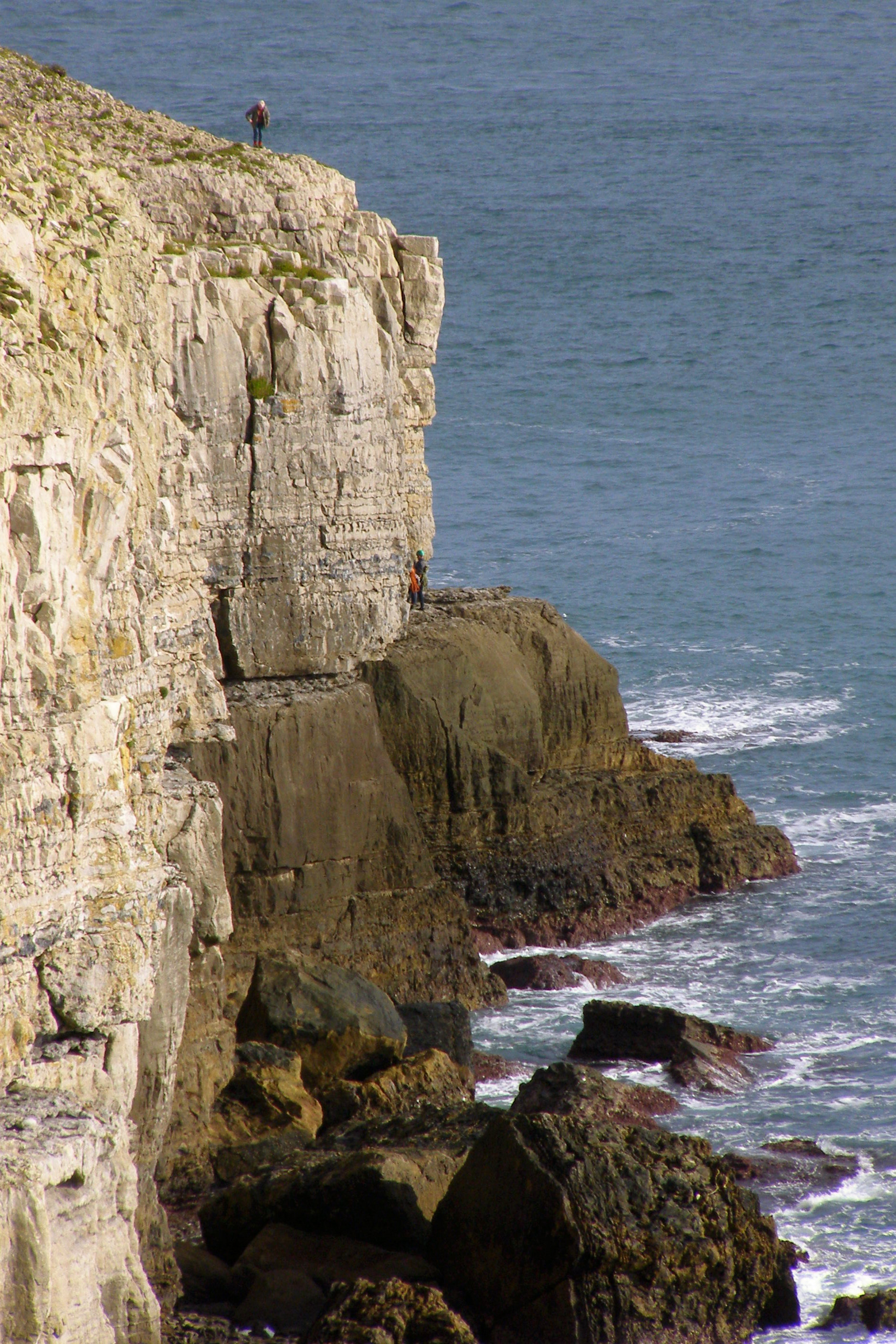 Climbers at Subluminal, west of Anvil Point. View from the Marmolata buttress. Durlston Country Park, Isle of Purbeck, Dorset, U.K.